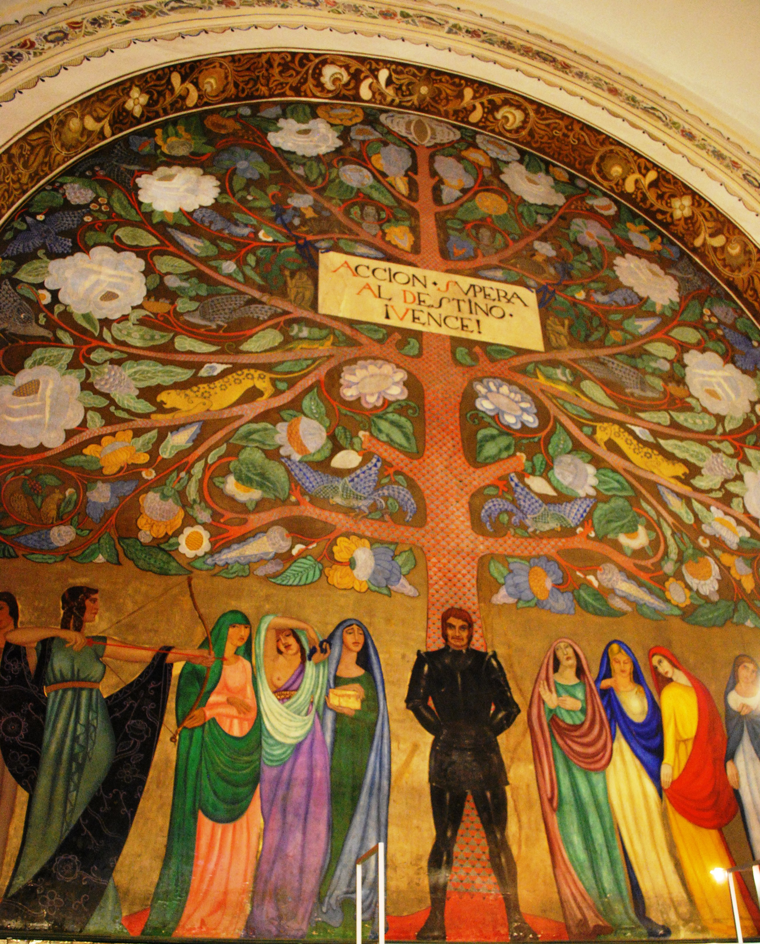 The Tree of Life or the Tree of Science painted by Roberto Montenegro in the 1920s at the Museo de la Luz located in the historic center of Mexico City.